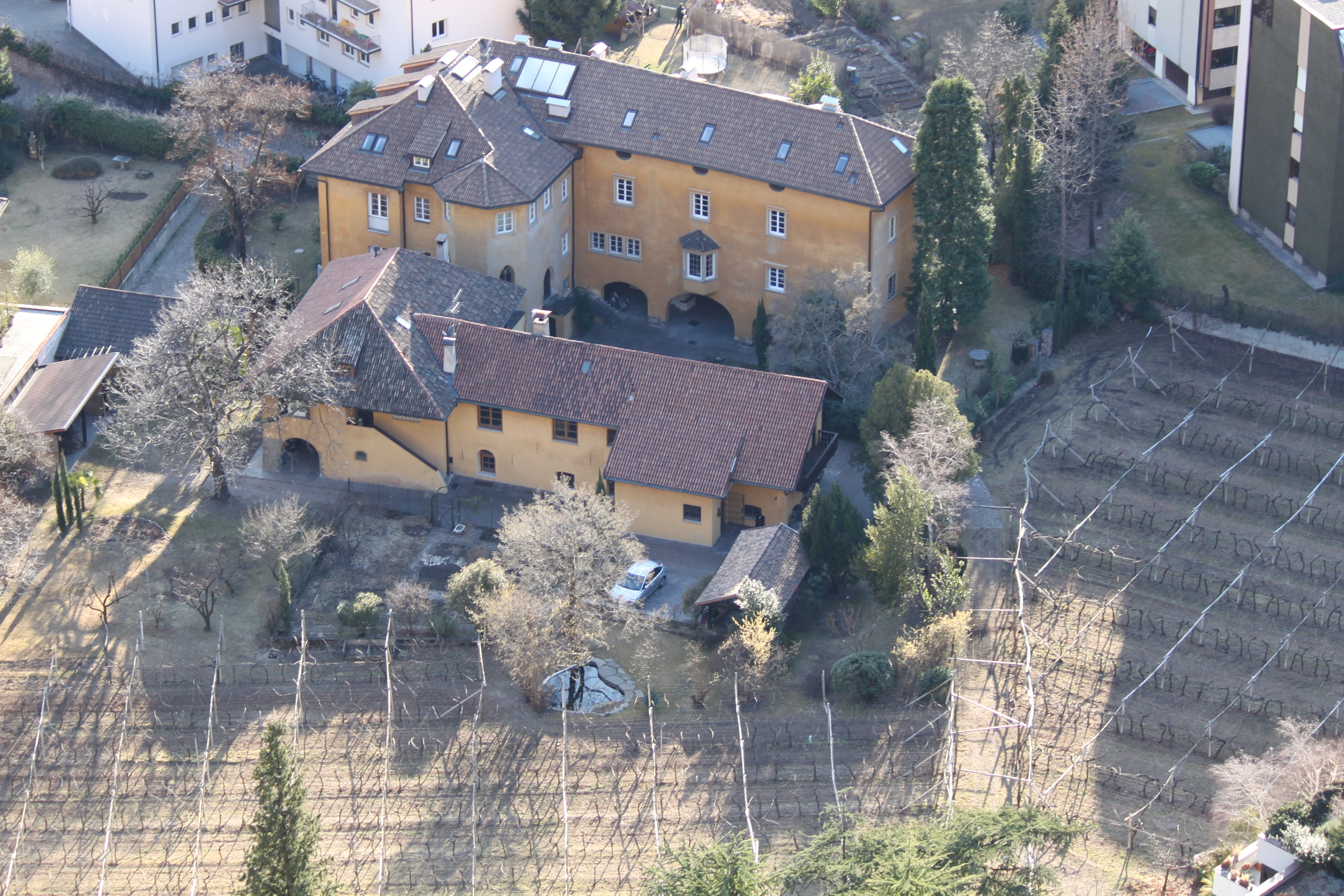 Oberpayrsberg in Bozen Bolzano South Tyrol